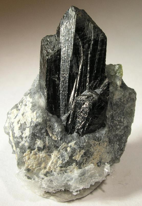 Baddeleyite Locality: Phalaborwa, Limpopo Province, South Africa (Locality at ) Size: thumbnail, 2.5 x 2.2 x 1 cm Baddeleyite This is a world-class Baddeleyite with exceptionally sharp form and good lustre! Considering the sheer quality of the crystals, their wonderful vitreous luster, and deep black color, this must be considered as one of the world’s best examples of the species - and it is a perfect large thumb, to boot. 2.5 x 2.2 x 1 cm